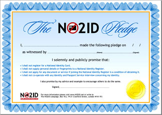 Colour image of the NO2ID Pledge certificate - for more information